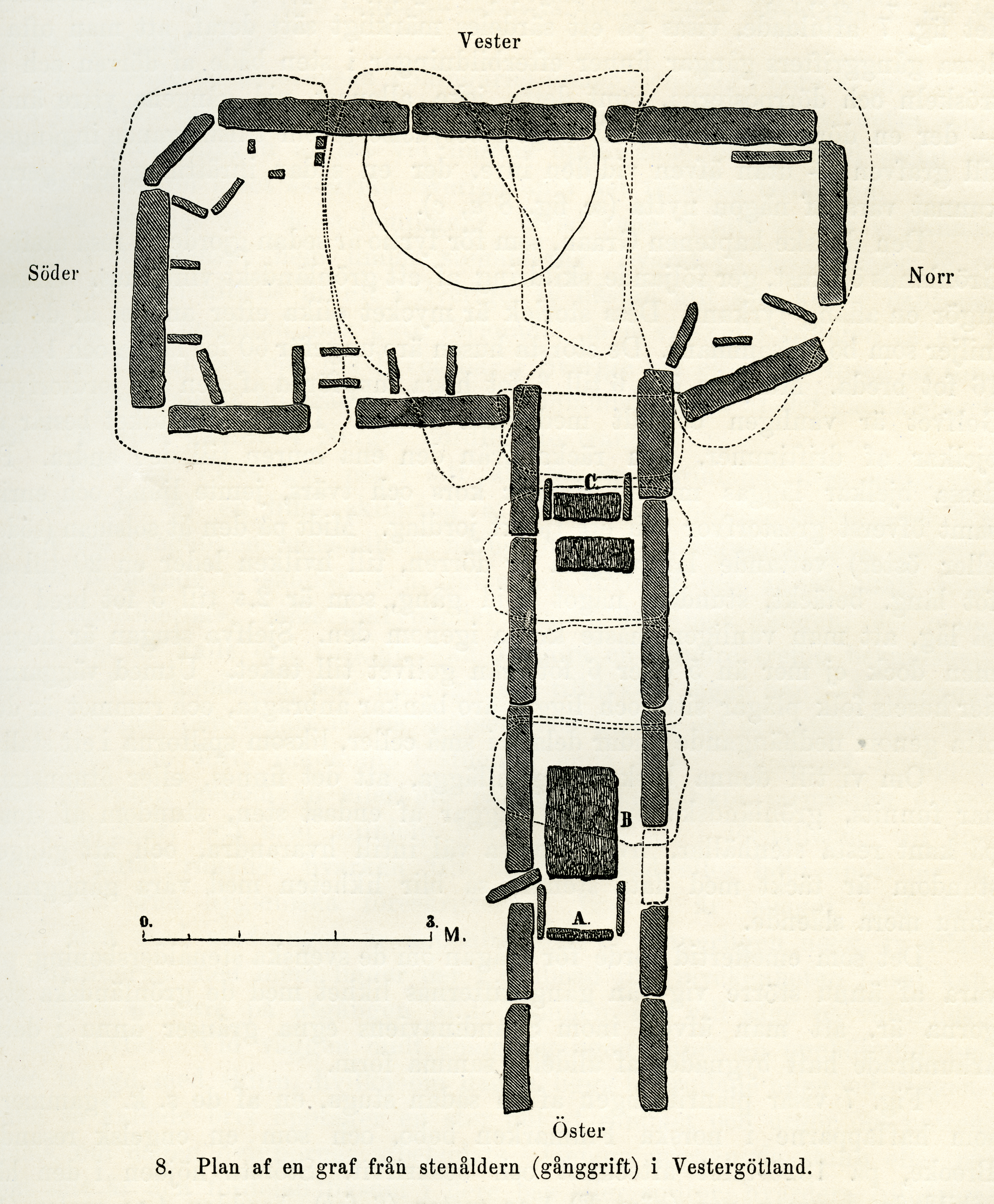 The Klövagården passage grave (RAÄ No Karleby 57:1) in Karleby Parish, Vartofta Hundred, Falköping Municipality, former Skaraborg County, Västergötland, Västra Götaland County, Sweden. Woodcut from page 17 in Sveriges hednatid, samt medeltid, förra skedet, från år 1060 till år 1350 (1877) by Oscar Montelius.